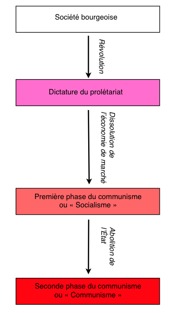 Marx's conceptions of different « scales » leading to the establishment of communist society.